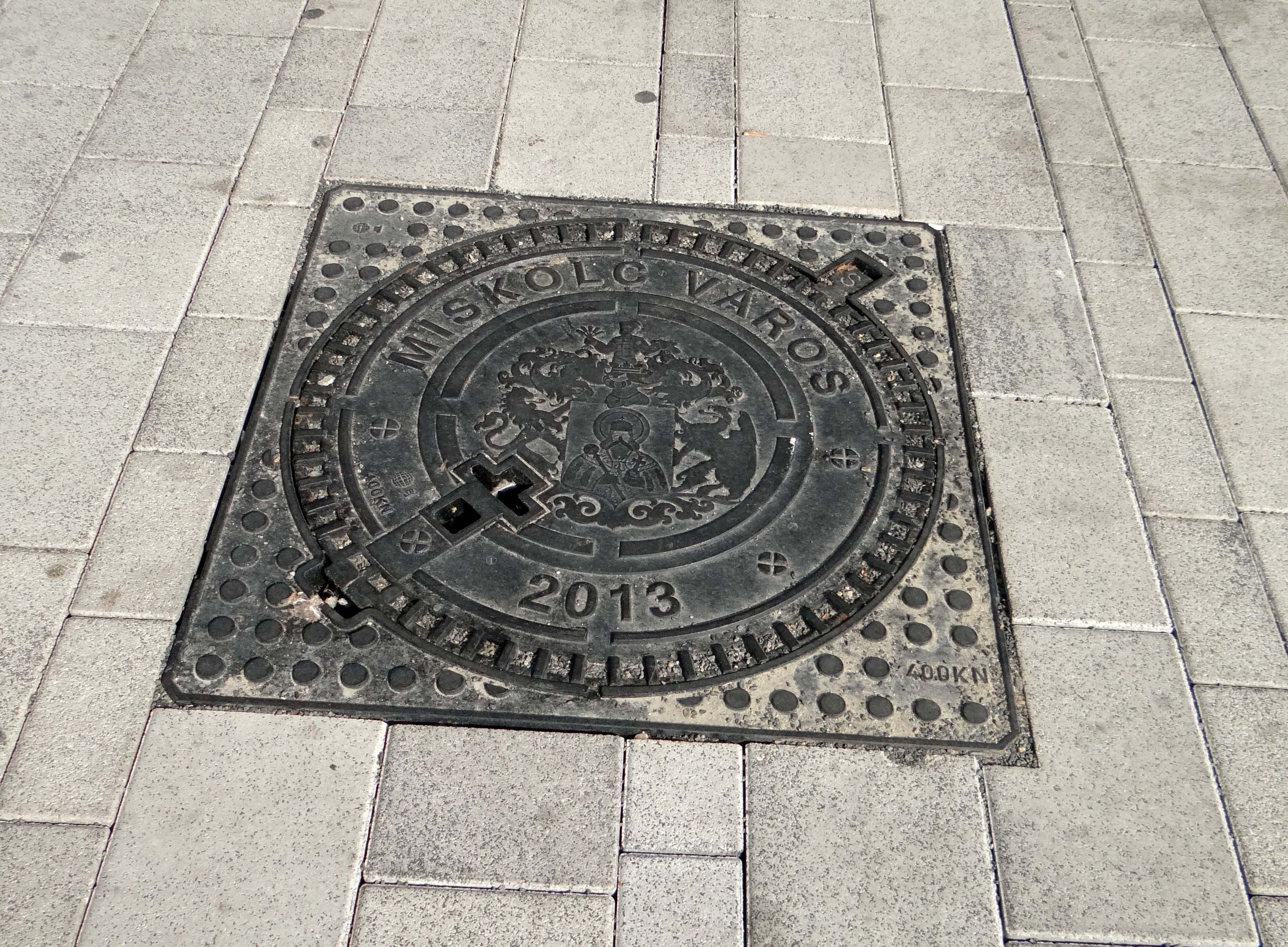 Manhole cover with coat of arms of Miskolc, Hungary